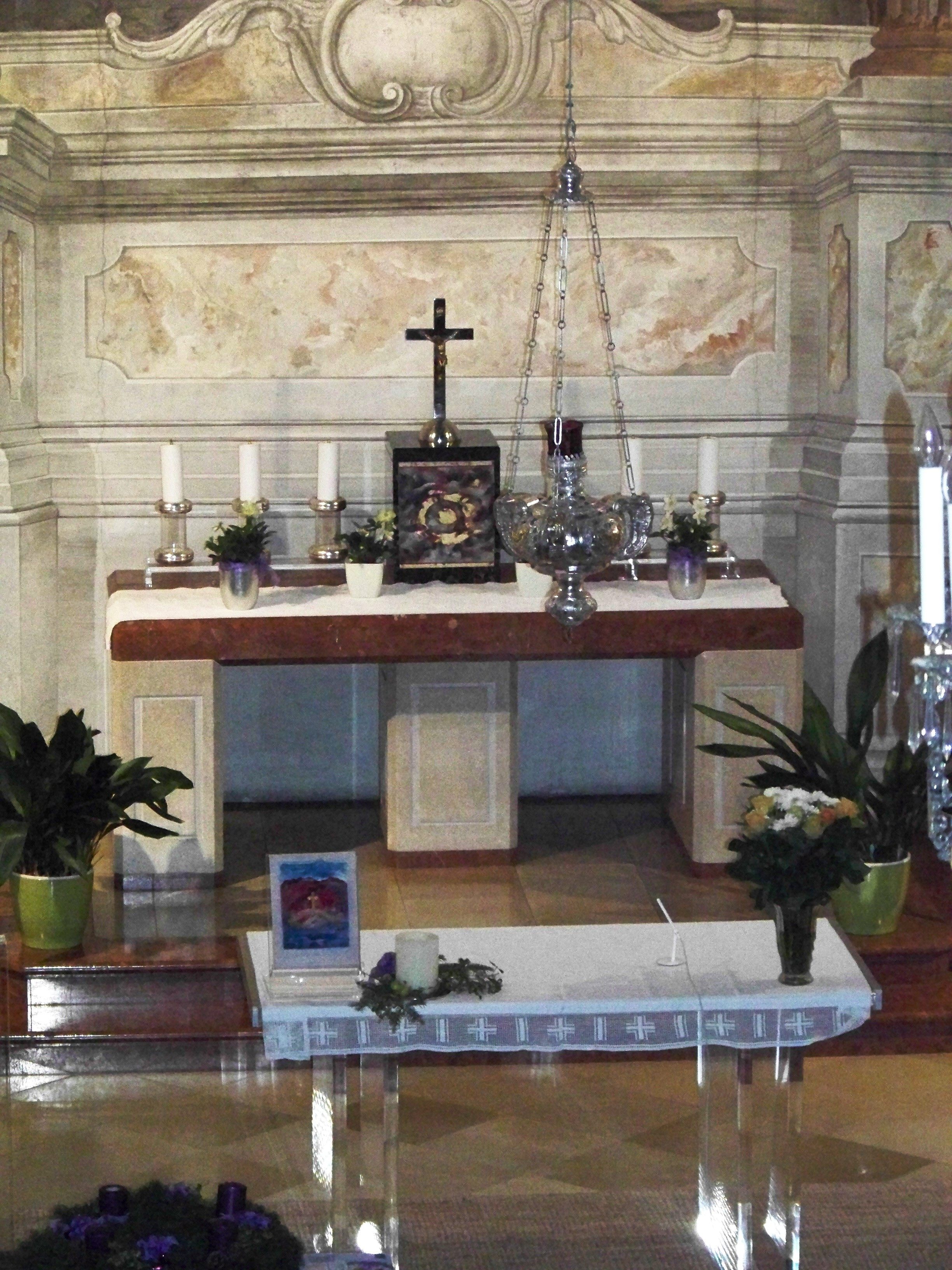 Prunerstift